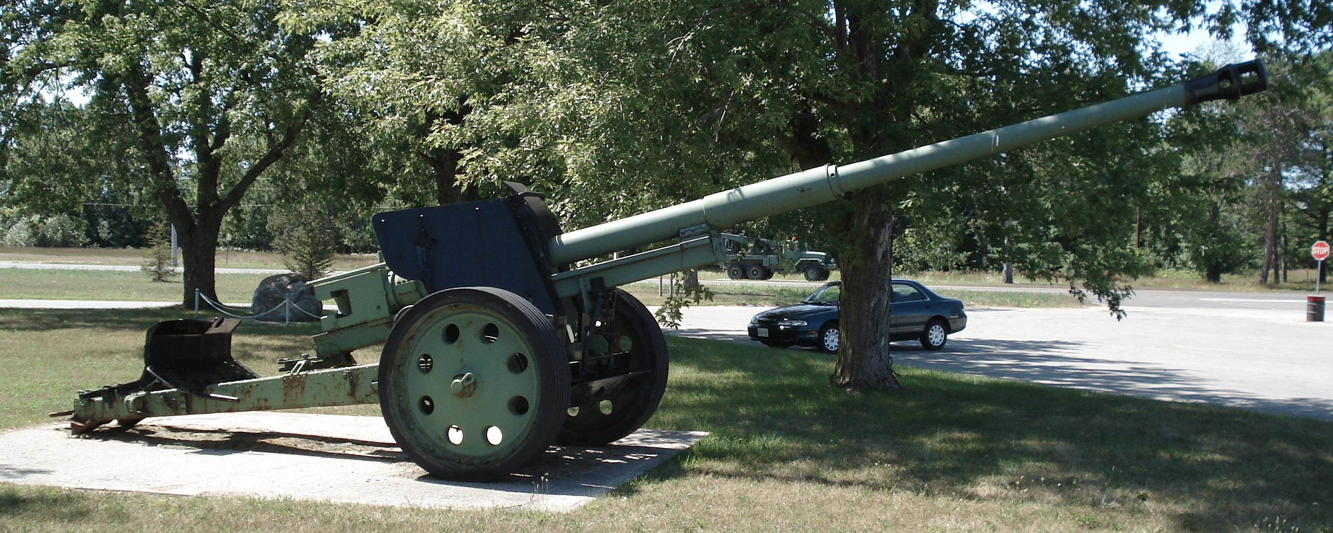 German PaK 43/41 88 mm anti-tank gun, displayed on the grounds of CFB Borden (Base Borden Military Museum). Photo taken on August 12, 2006. Source: Photo by me, User:Balcer.